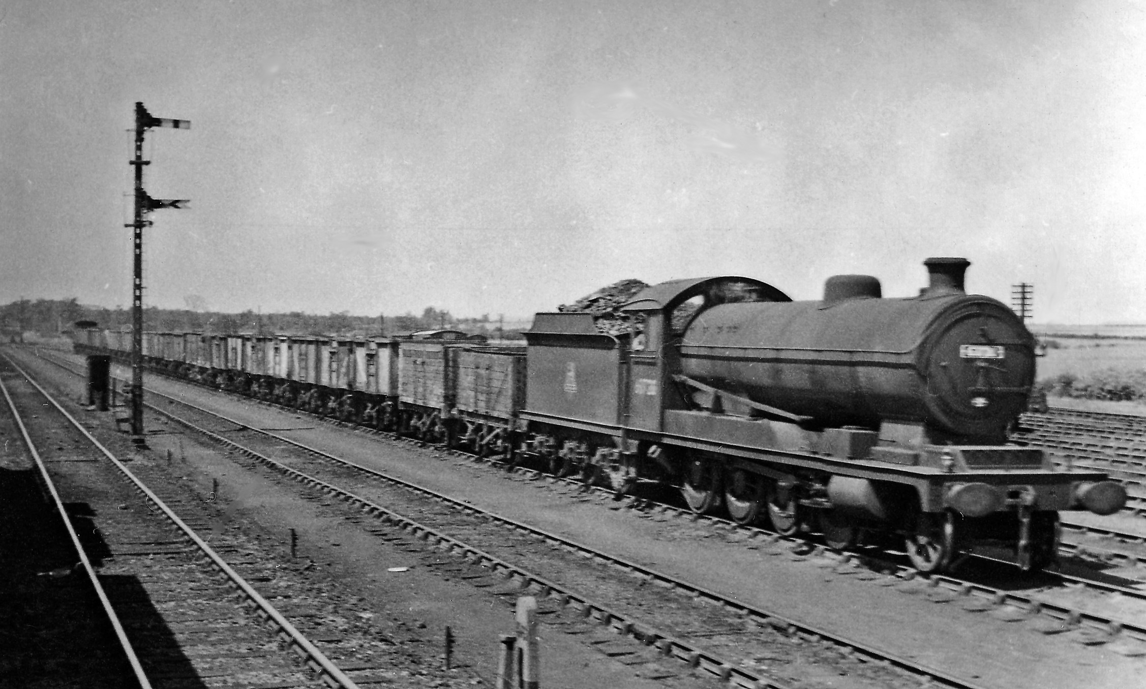 Eastbound mineral empties at Worksop Sidings. View NW, towards Shireoaks and Sheffield; ex-GC Sheffield - Retford - Lincoln main line. The train is headed by Thompson Class O4/8, a rebuild (8/54) of ex-GC Class O4 No. 6311 (built 5/19 to Government order). This route carried heavy coal traffic from the many collieries in the North Nottingham District, some of which was marshalled at the Worksop Yards, which were almost opposite one another along this stretch between Worksop (to the east) and Shireoaks East Junction (for the ex-Midland line to Mansfield and Nottingham - now the Robin Hood Line).